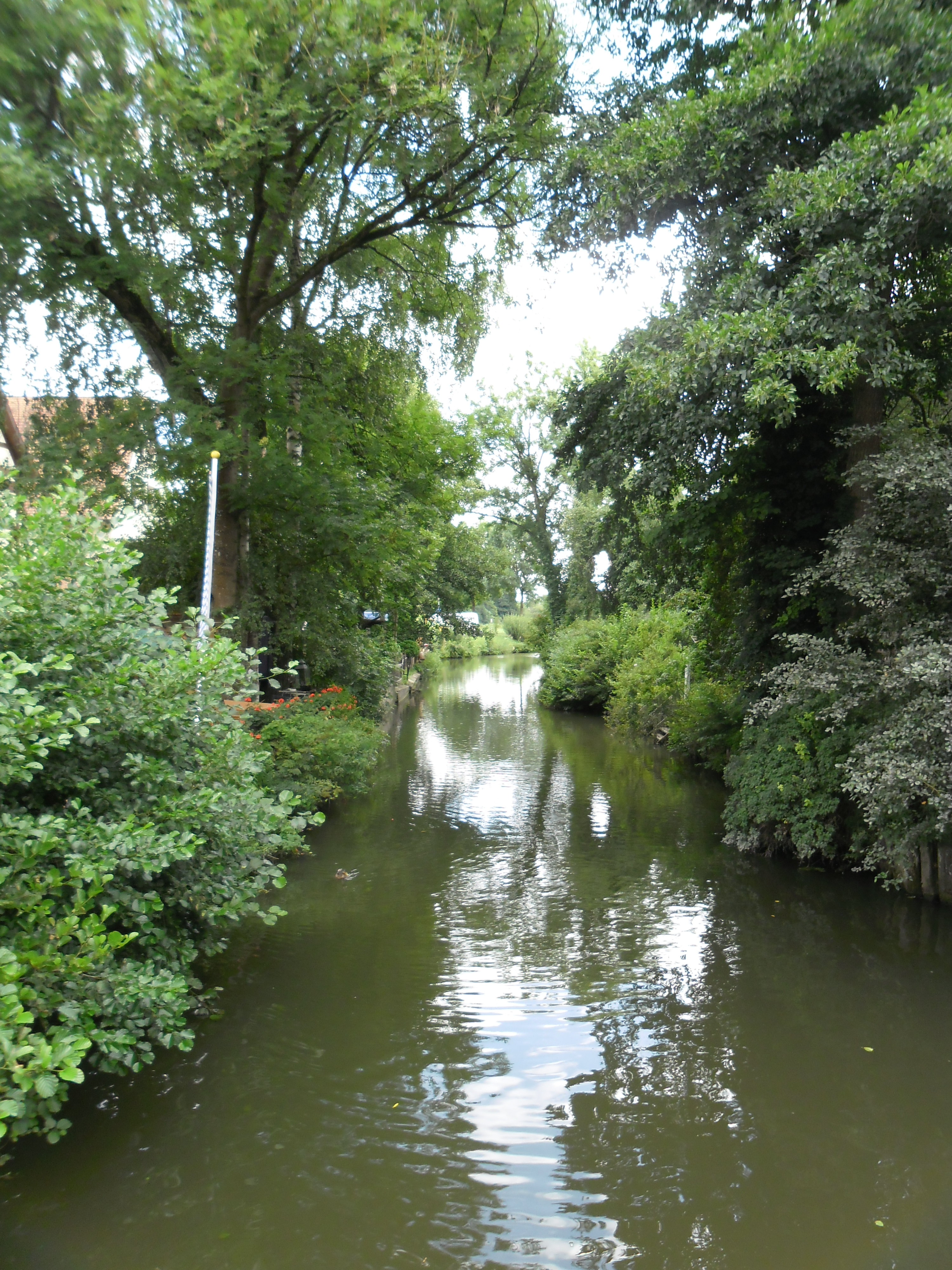 The river Wörnitz in Dinkelsbühl